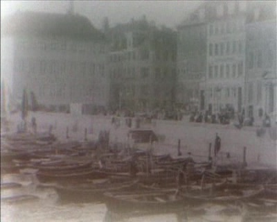 Screenshot from the 1907 film Københavnerbilleder (Pictures of Copenhagen) directed by Peter Elfelt. Ships at Gammel Strand in Indre By.